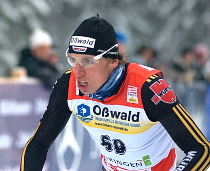 Tim Tscharnke at the Tour de Ski 2010 in Oberhof